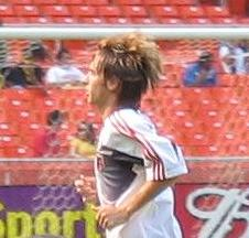 Photo of Bobby Convey taken by me before a D.C. United game at Robert F. Kennedy Memorial Stadium.